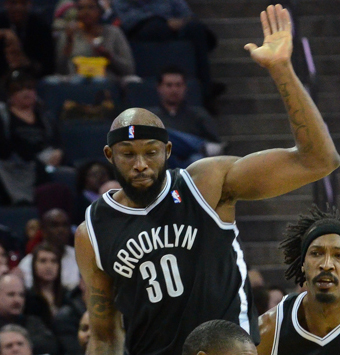 Reggie Evans